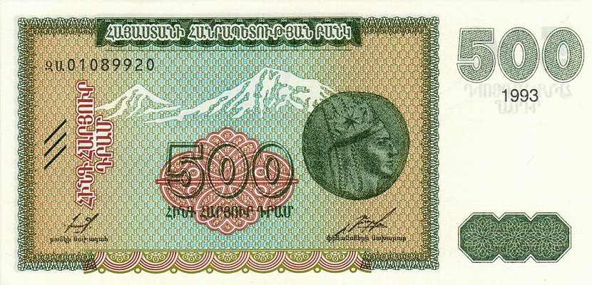 500 dram 1993